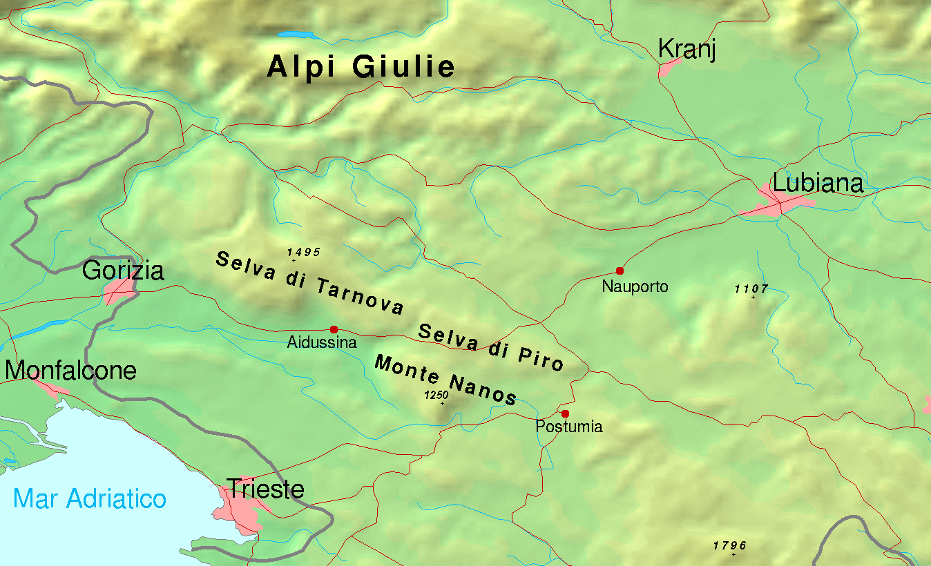 Mountain Regions Hrušica and Trnovski Gozd in Slovenia in geographical context.